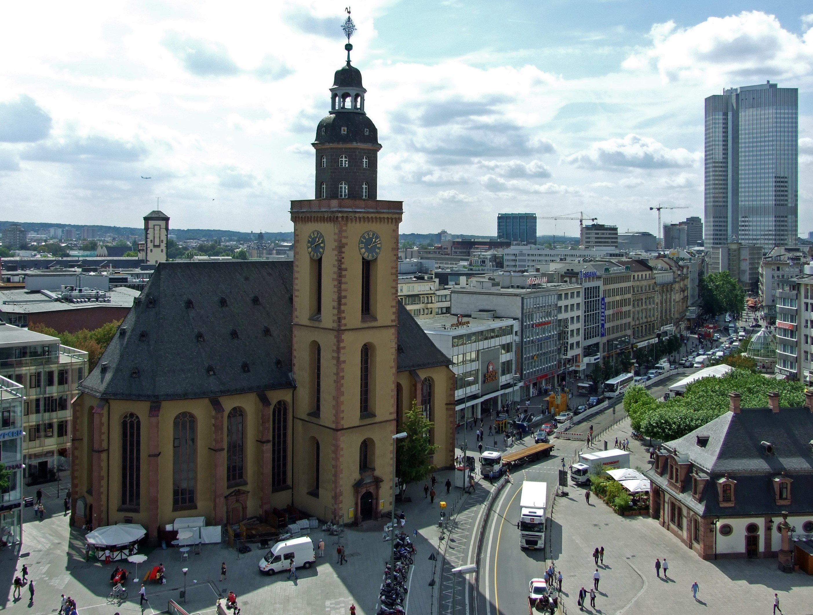 Katharinenkirche with Hauptwache and ECB tower, Frankfurt-Innenstadt